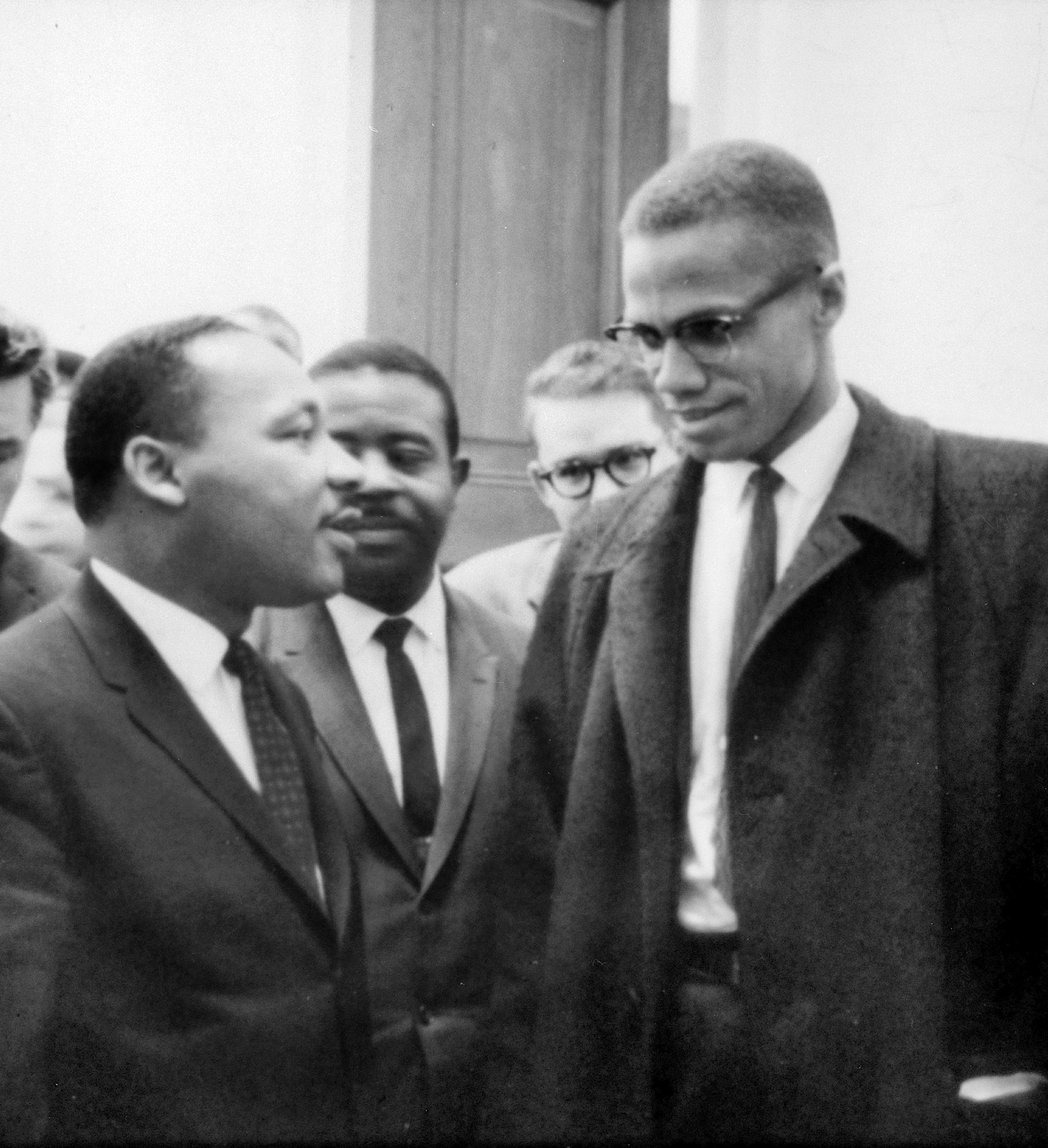 Martin Luther King, Jr. and Malcolm X meet before a press conference. Both men had come to hear the Senate debate on the Civil Rights Act of 1964. This was the only time the two men ever met; their meeting lasted only one minute.